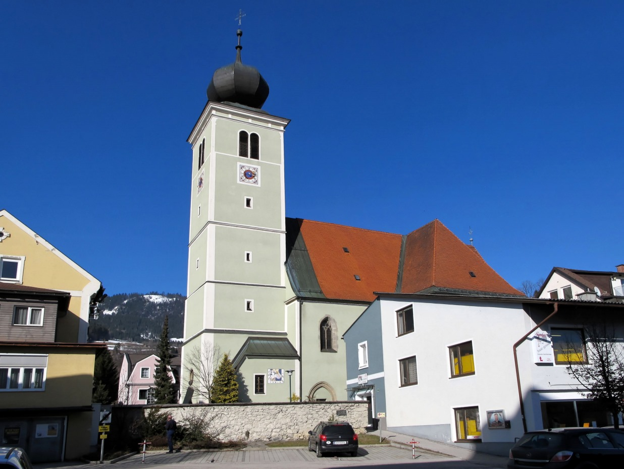 City Liezen, Parish Church St.Veit